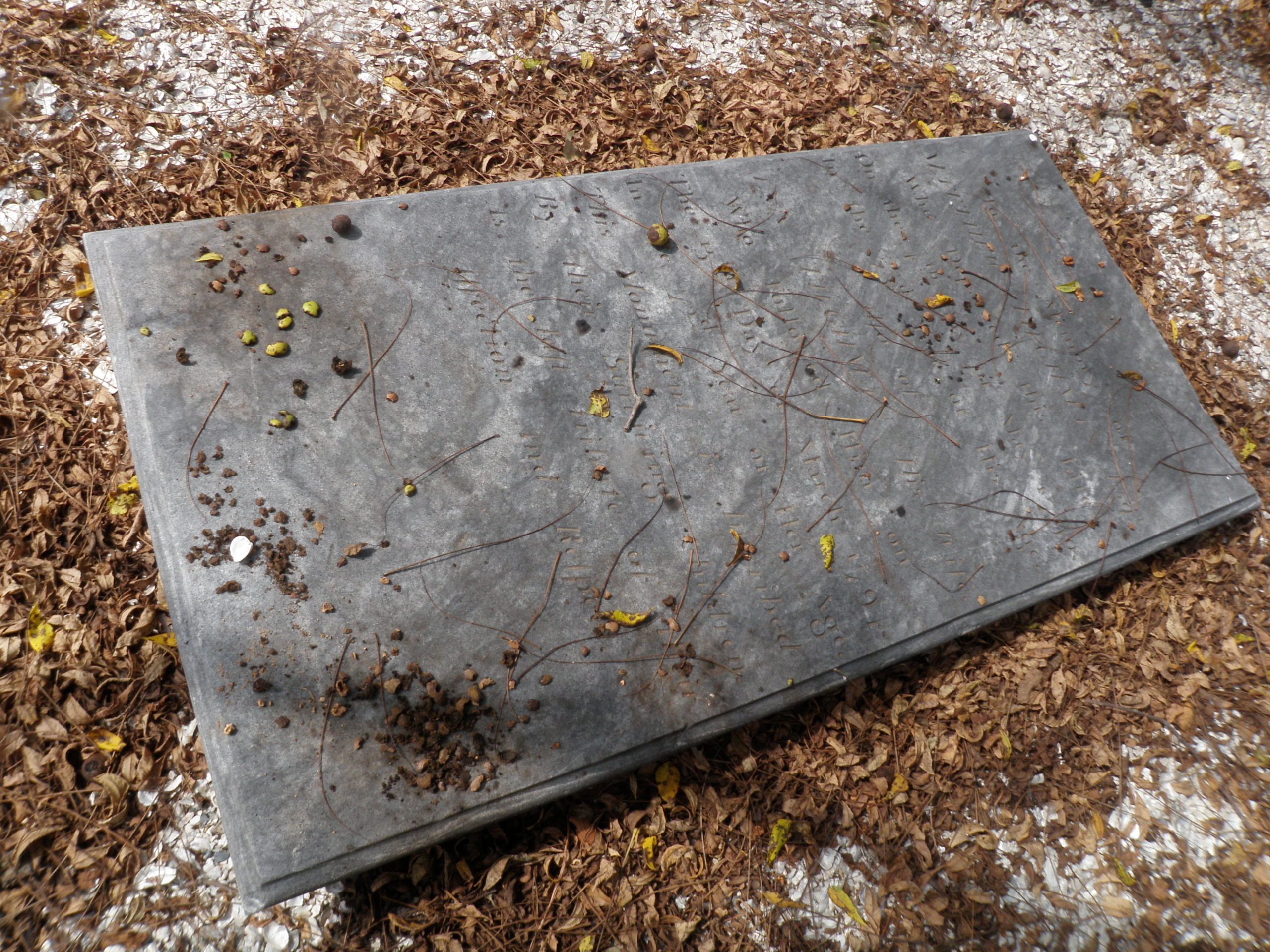 The burial site of Matthew Tilghman, a delegate to the Continental Congress.